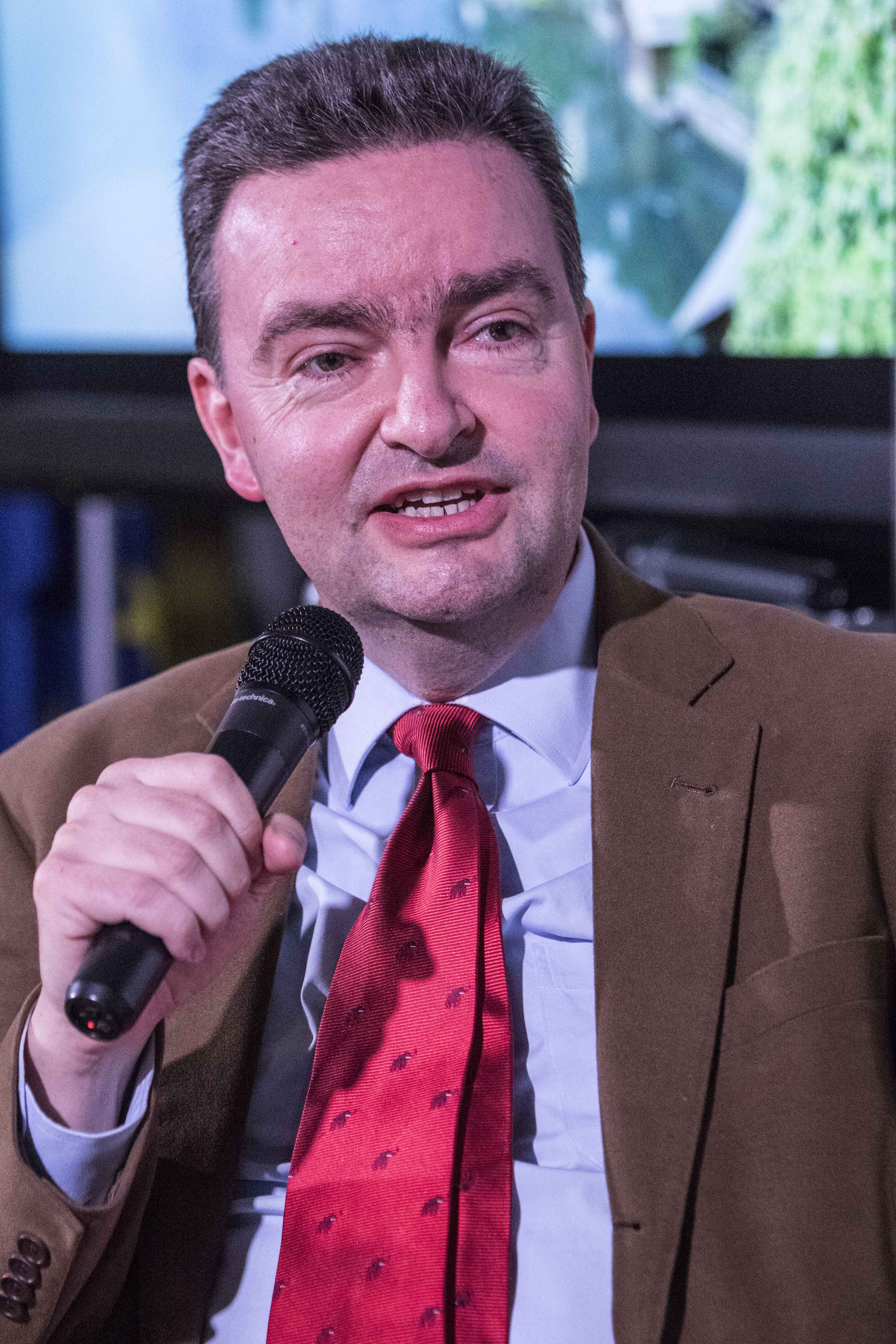 Georg von Habsburg in March 2017